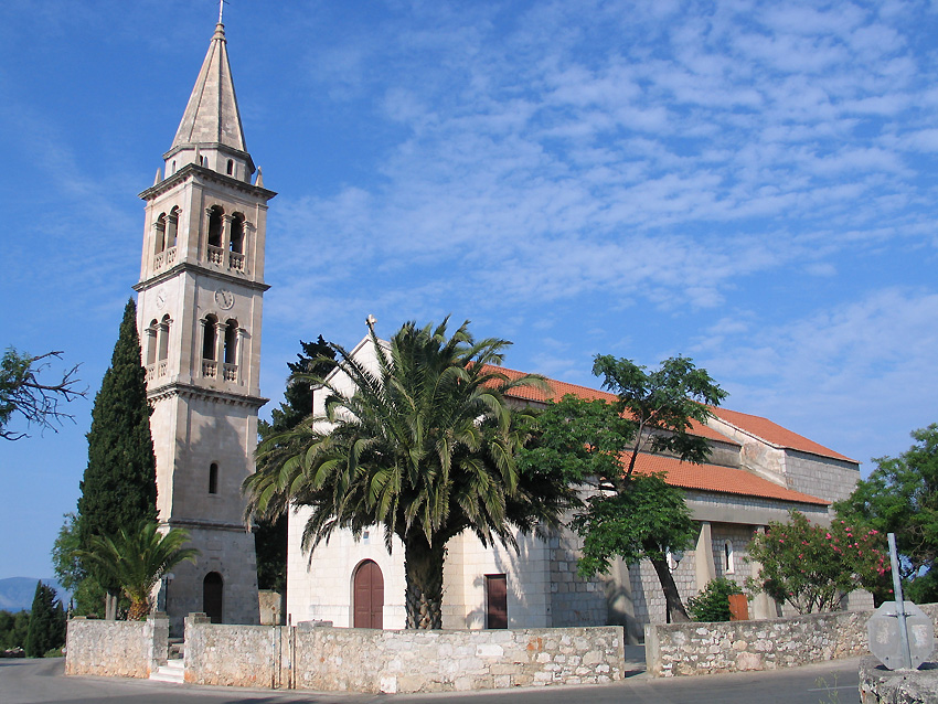 Holy Spirit church in the village of Vrbanj ,island of Hvar